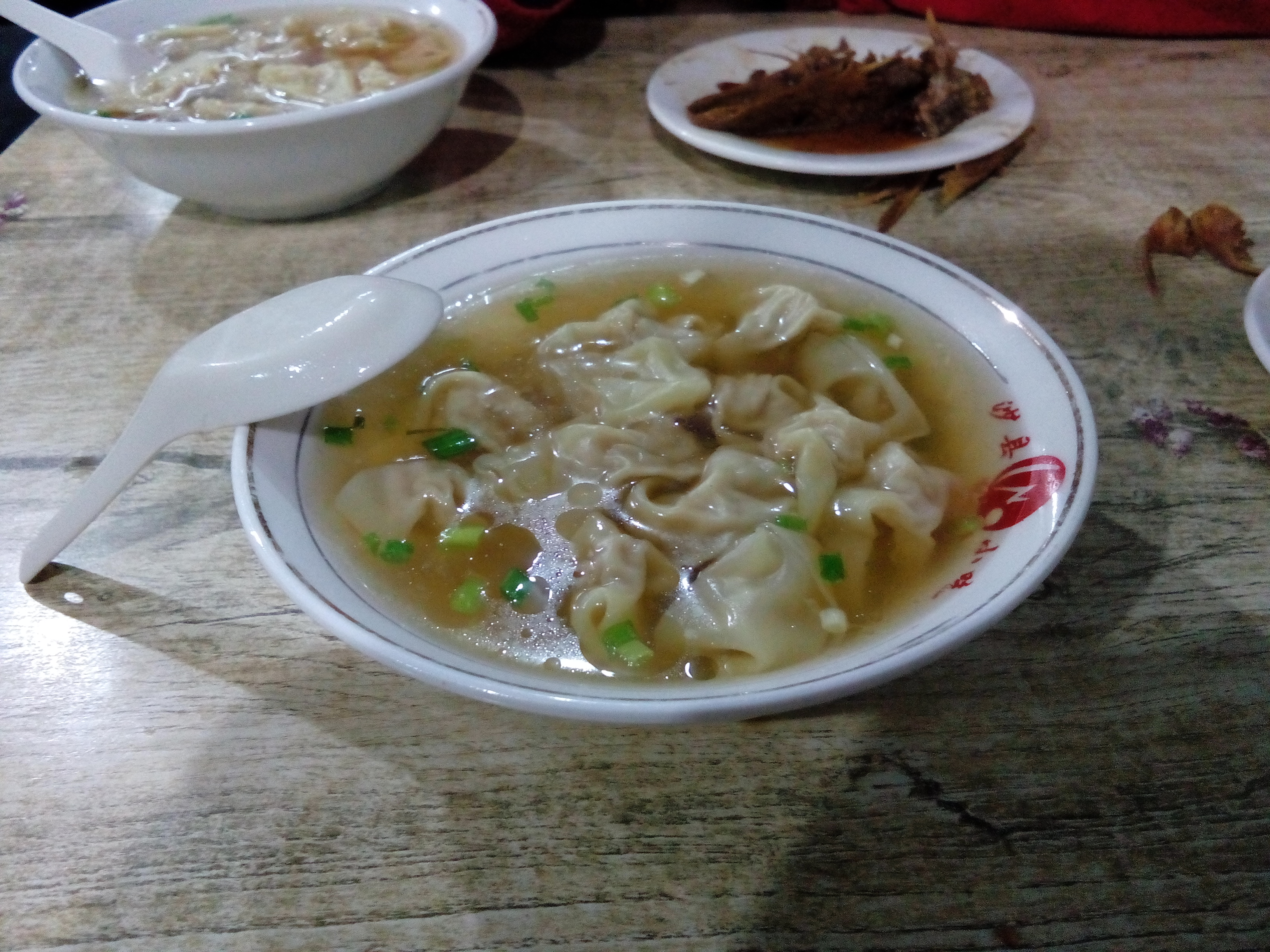 Shaxian County snacks - wonton.